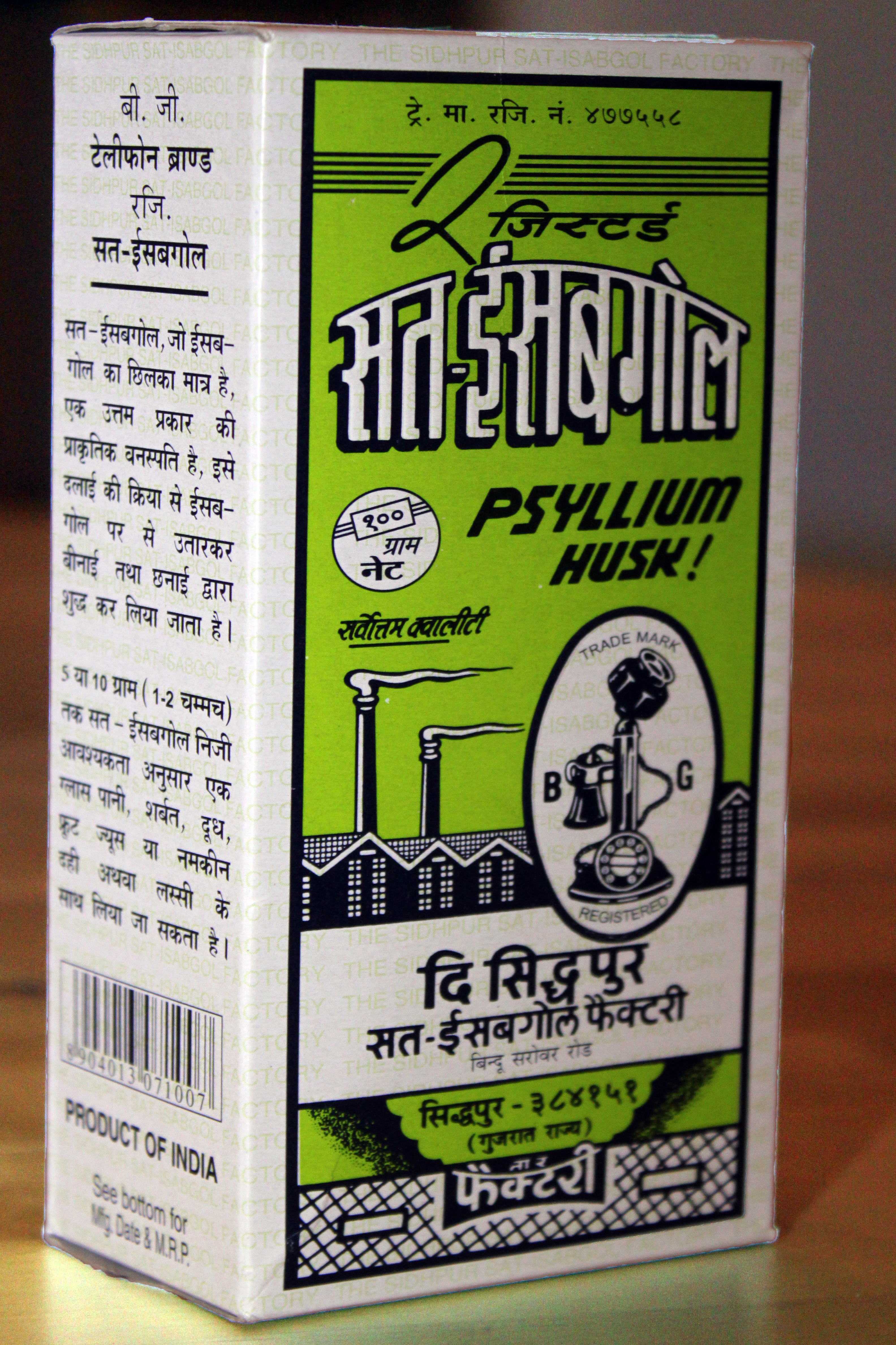 Psyllium seed husks (Plantago ovata), from Dong Xuan Center Berlin, Germany (Herzbergstr.)